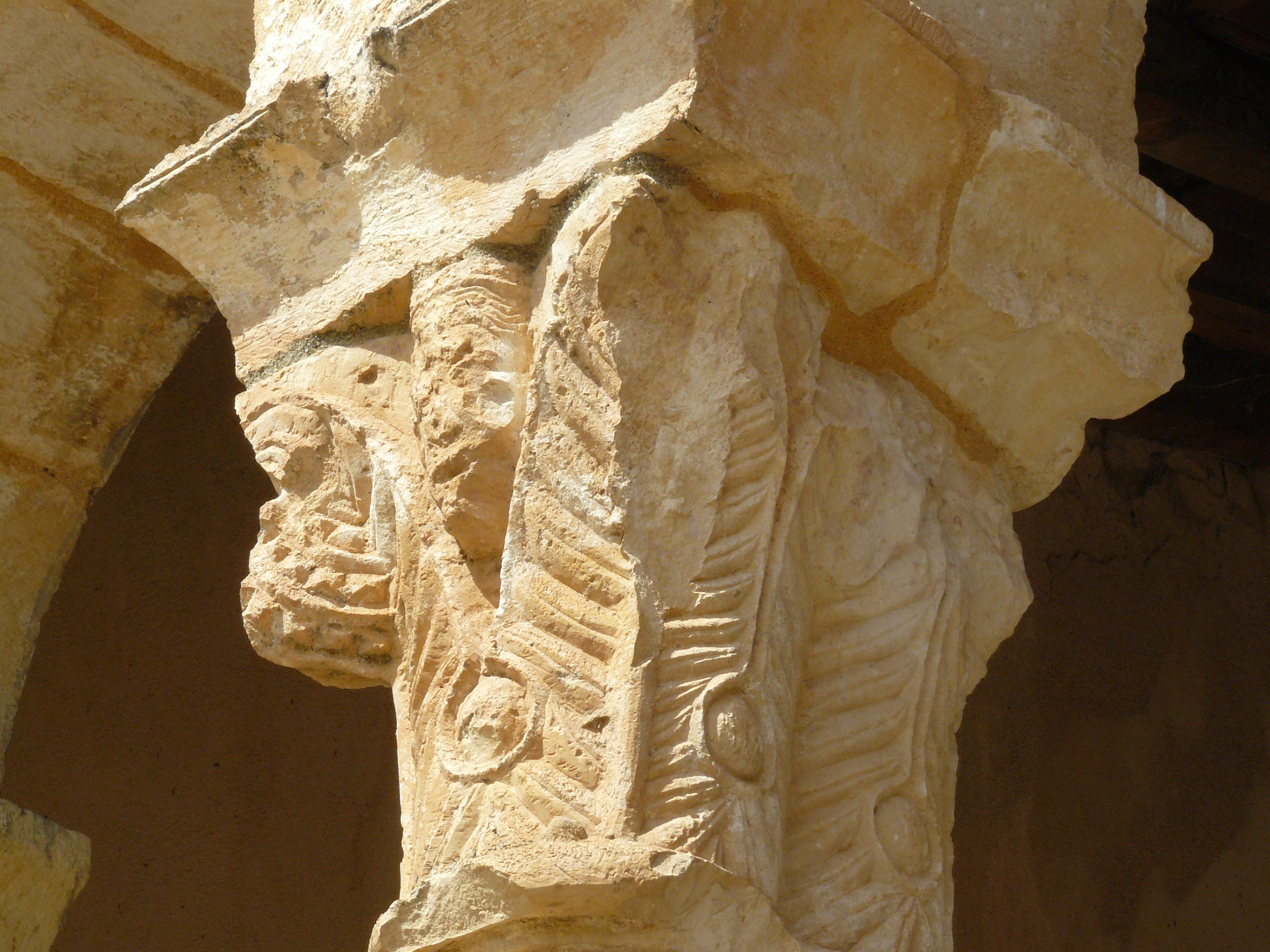 Capital showing acanthus leaves, church of Nuestra Señora de las Vegas, Requijada Segovia (Spain)